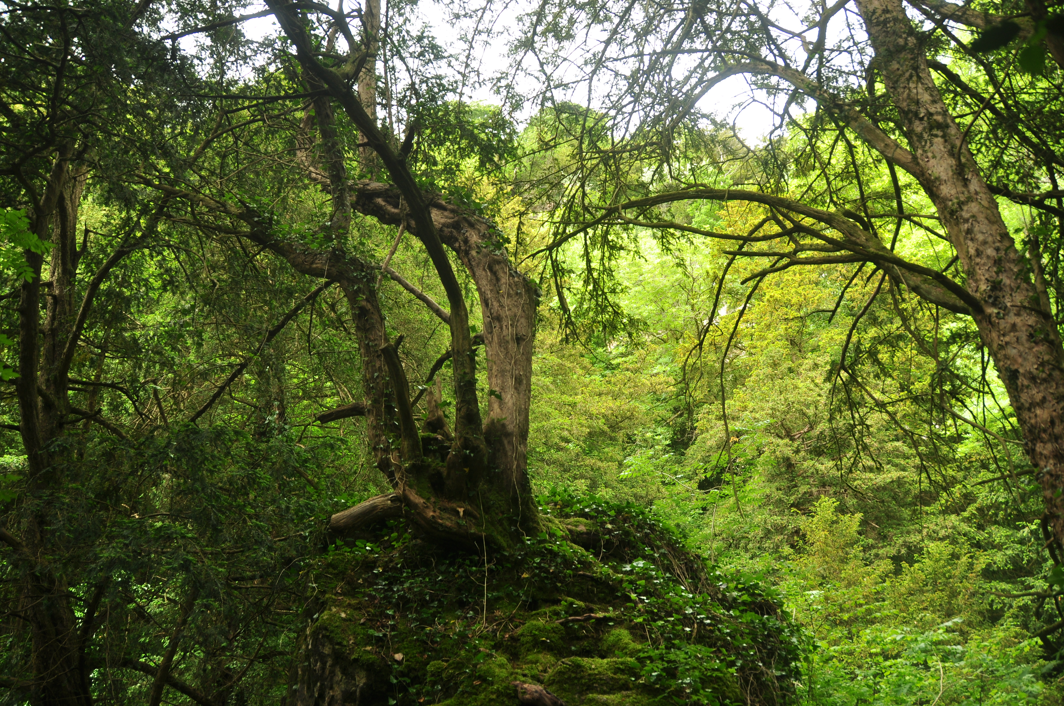 Forest on the Wyndcliff